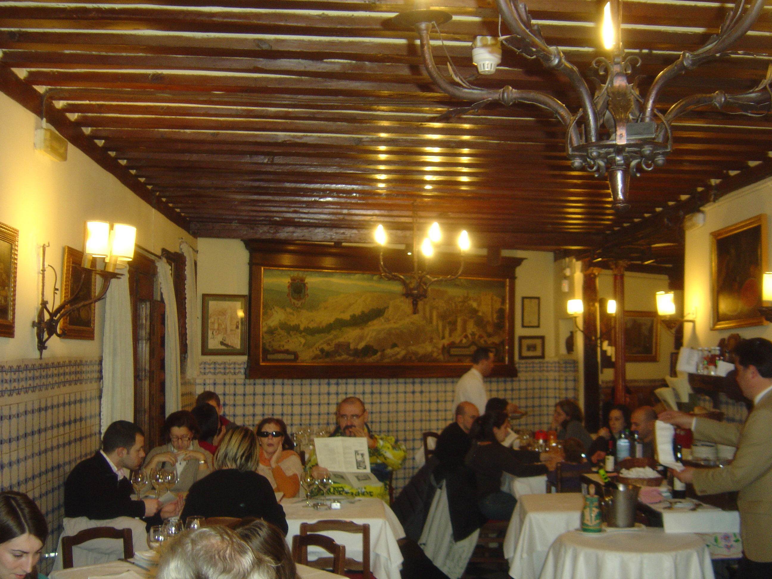 The interior of "Casa Botín" in Madrid